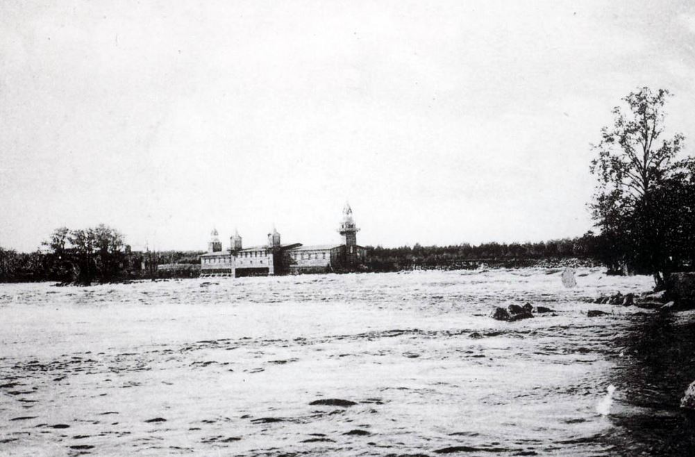 Linnankoski hydroelectric plant in river Vuoksi, Imatra, Finland.